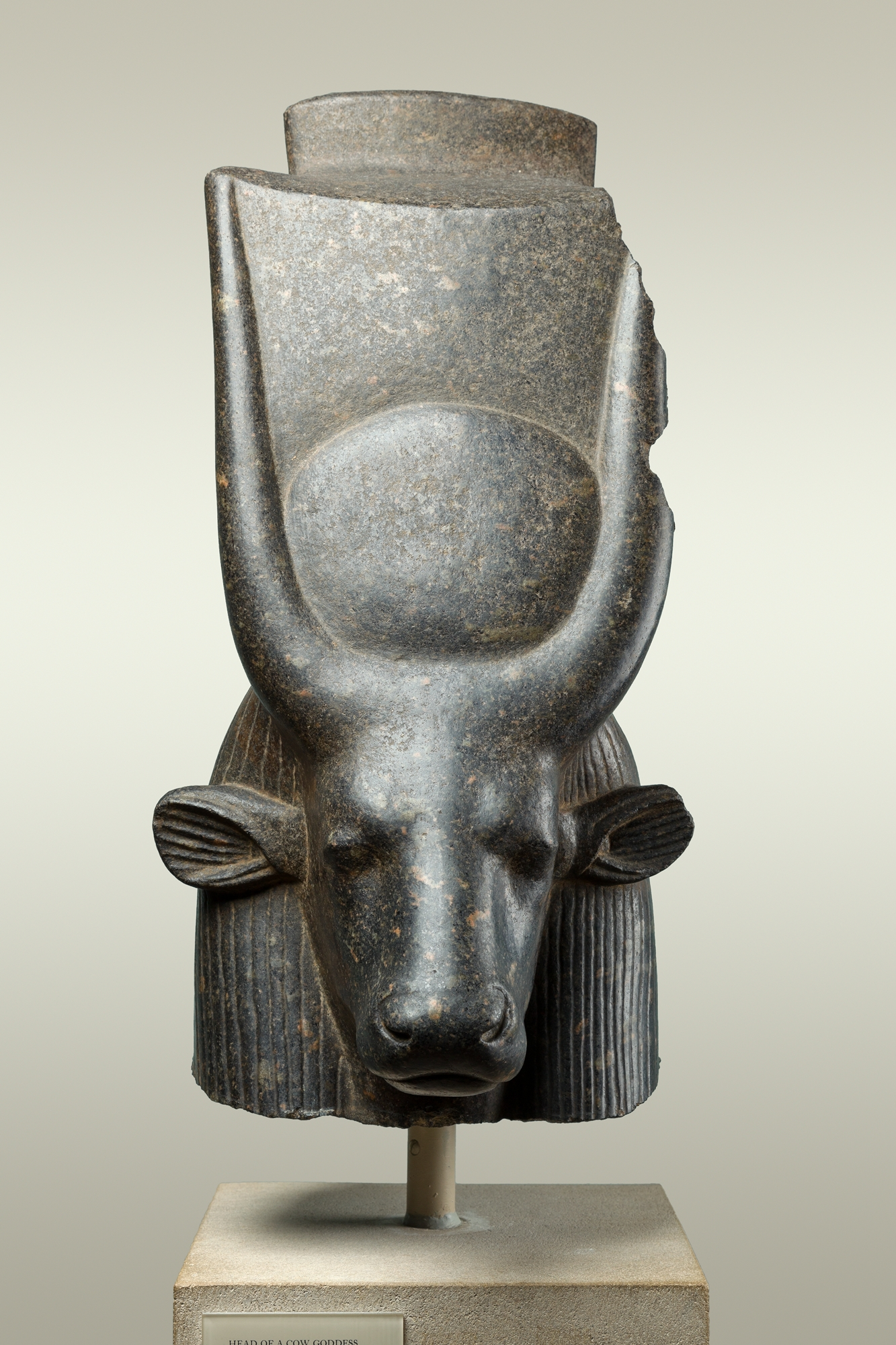 Head of a Cow Goddess (Hathor or Mehetweret)